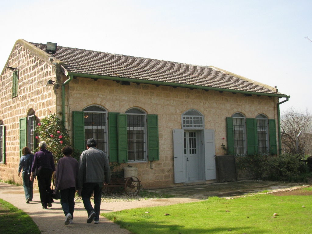 Family house at the entrance to the estate